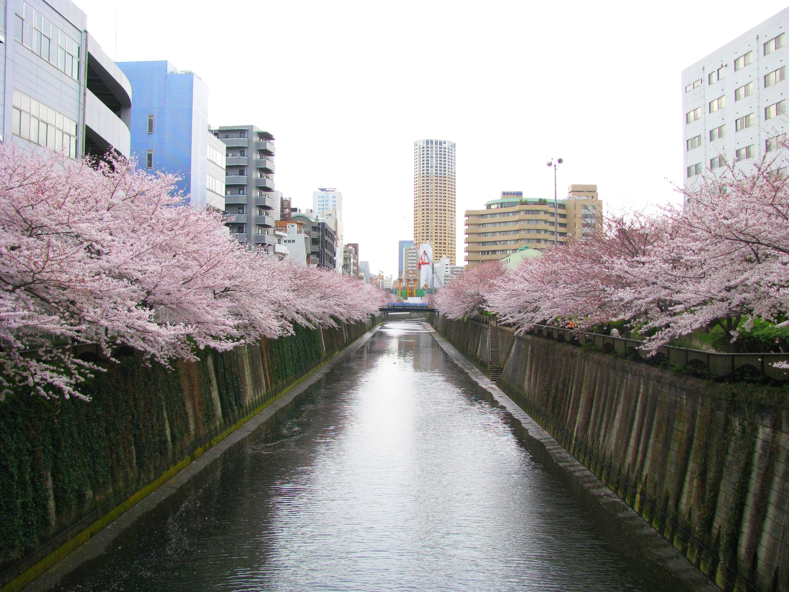 The Meguro-gawa is a river in Tokyo. This located is Meguro, Tokyo, Japan.